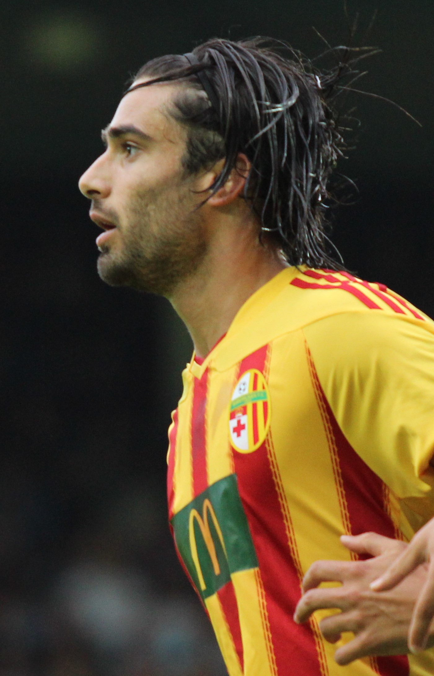 Rowen Muscat of Birkirkara is pressured by Winston Reid of West Ham.